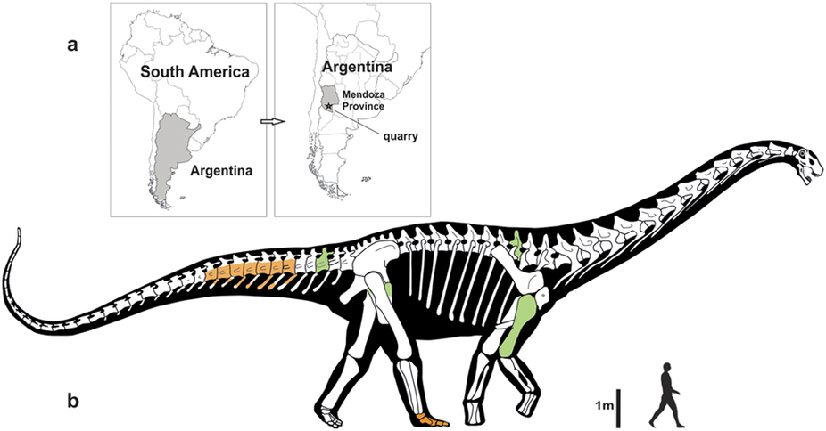 Figure 1: Geographic provenance and speculative reconstruction of the gigantic titanosaurian sauropod dinosaur Notocolossus gonzalezparejasi gen. et sp. nov. (a) Type locality of Notocolossus (indicated by star) in southern-most Mendoza Province, Argentina. (b) Reconstructed skeleton and body silhouette in right lateral view, with preserved elements of the holotype (UNCUYO-LD 301) in light green and those of the referred specimen (UNCUYO-LD 302) in orange. Scale bar, 1 m. (All images were hand drawn by the senior author [B.J.G.R.] and subsequently edited using Adobe Illustrator software.)